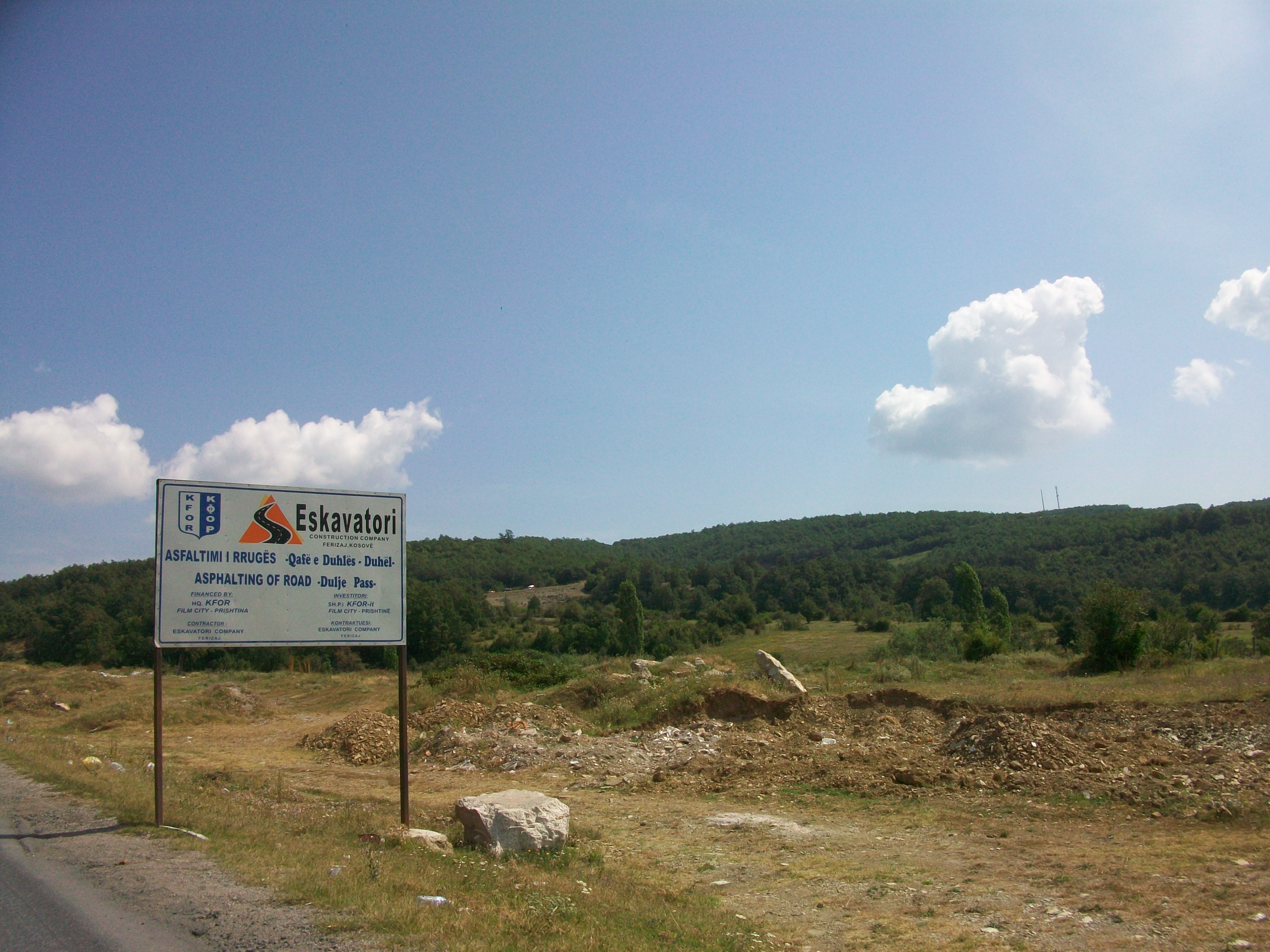 Pictures from Prizren Kosovo